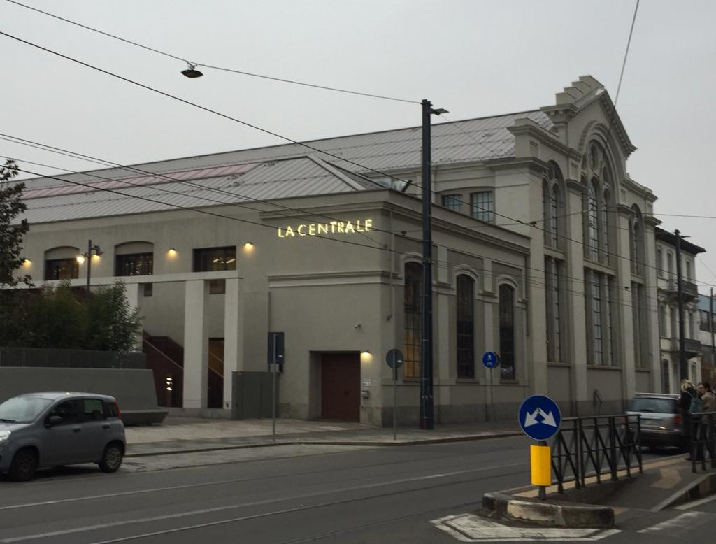 Centrale Lavazza